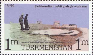 115th Anniversary of Nobel Partnership to Exploit Black Oil.